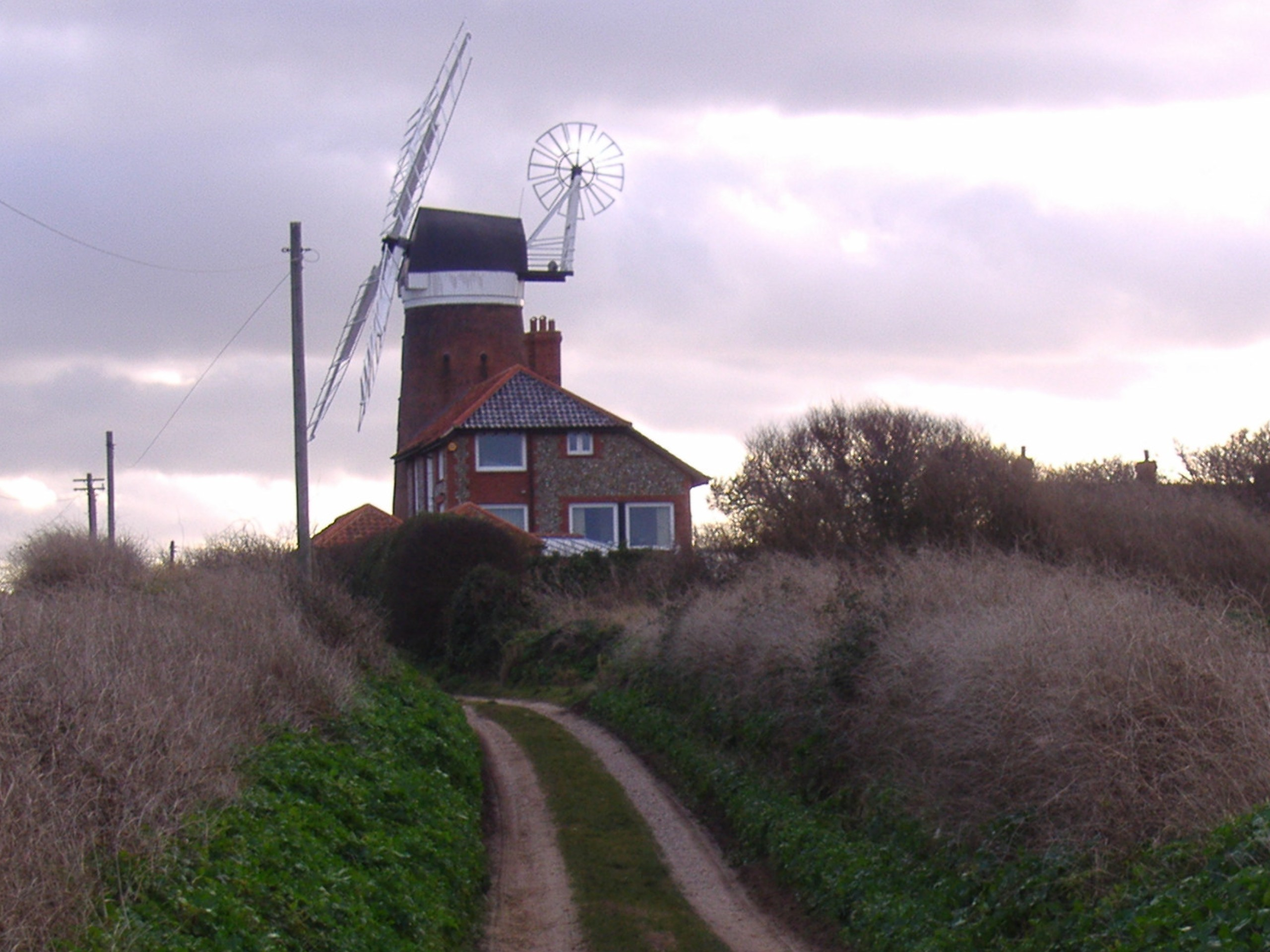 By Mark Hobbs, an original digital photograph of Weybourne Windmill